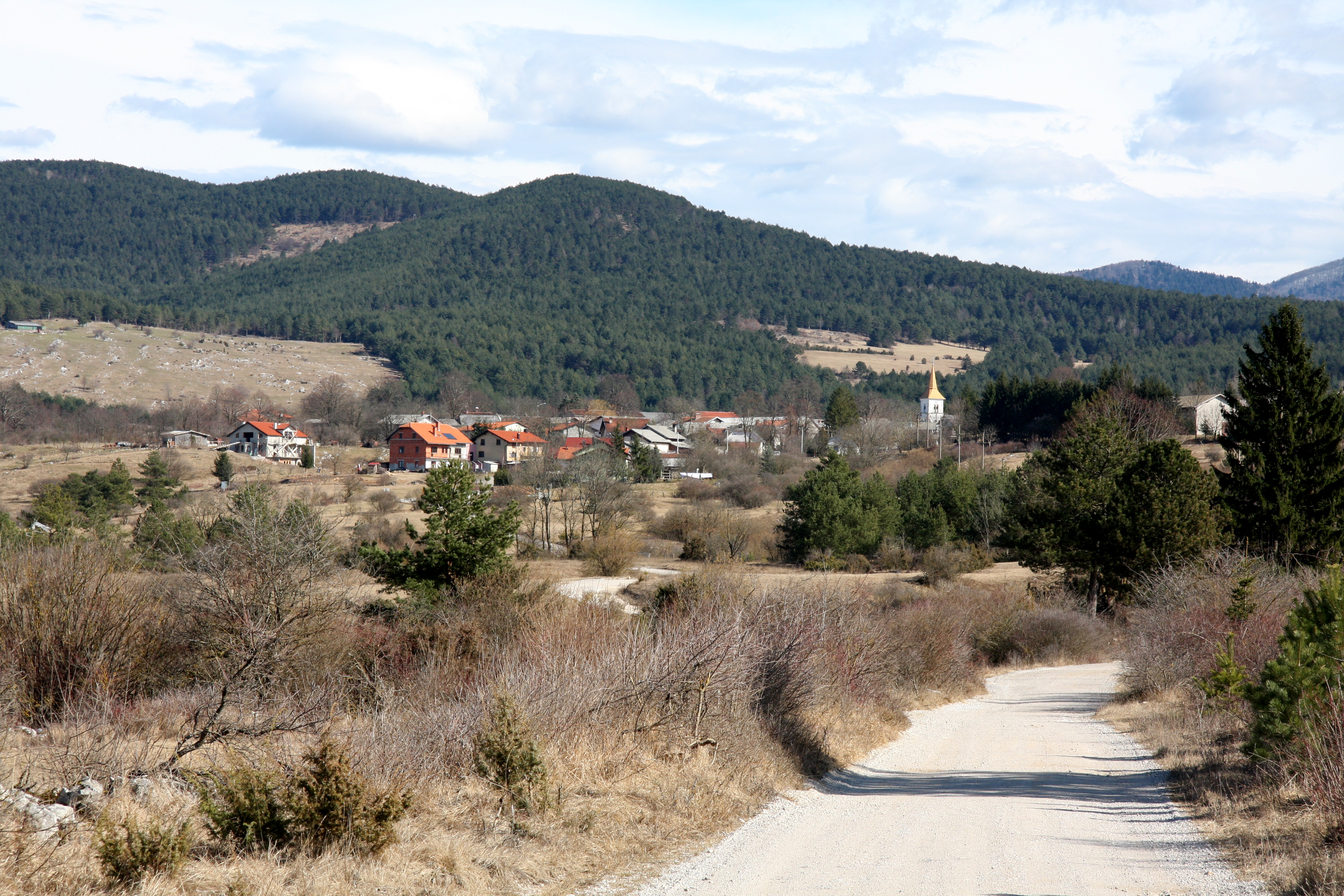 Palčje, a village near Pivka, Slovenia